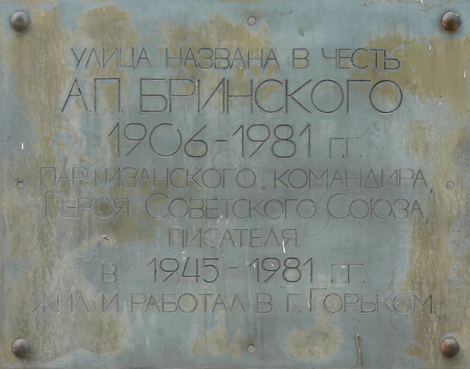 The memmorial to Brinskiy